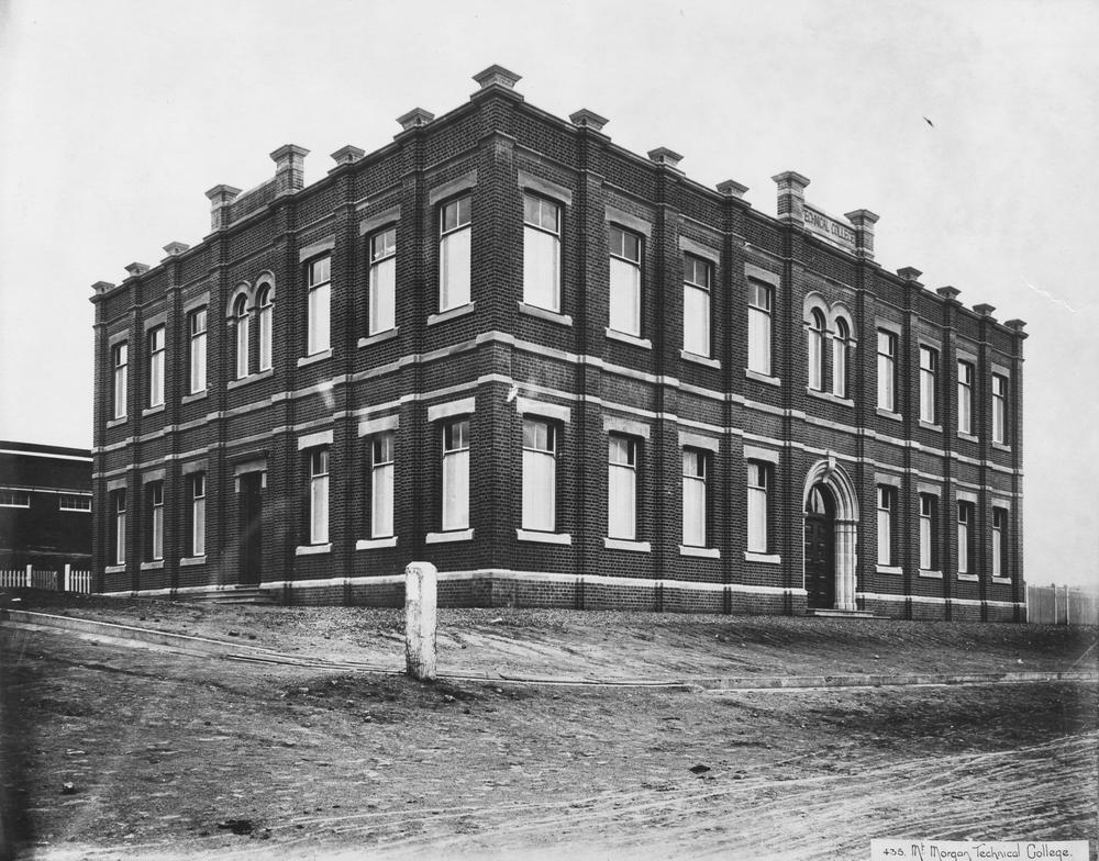 Mount Morgan Technical College, ca. 1909. Can you help us describe this image?.